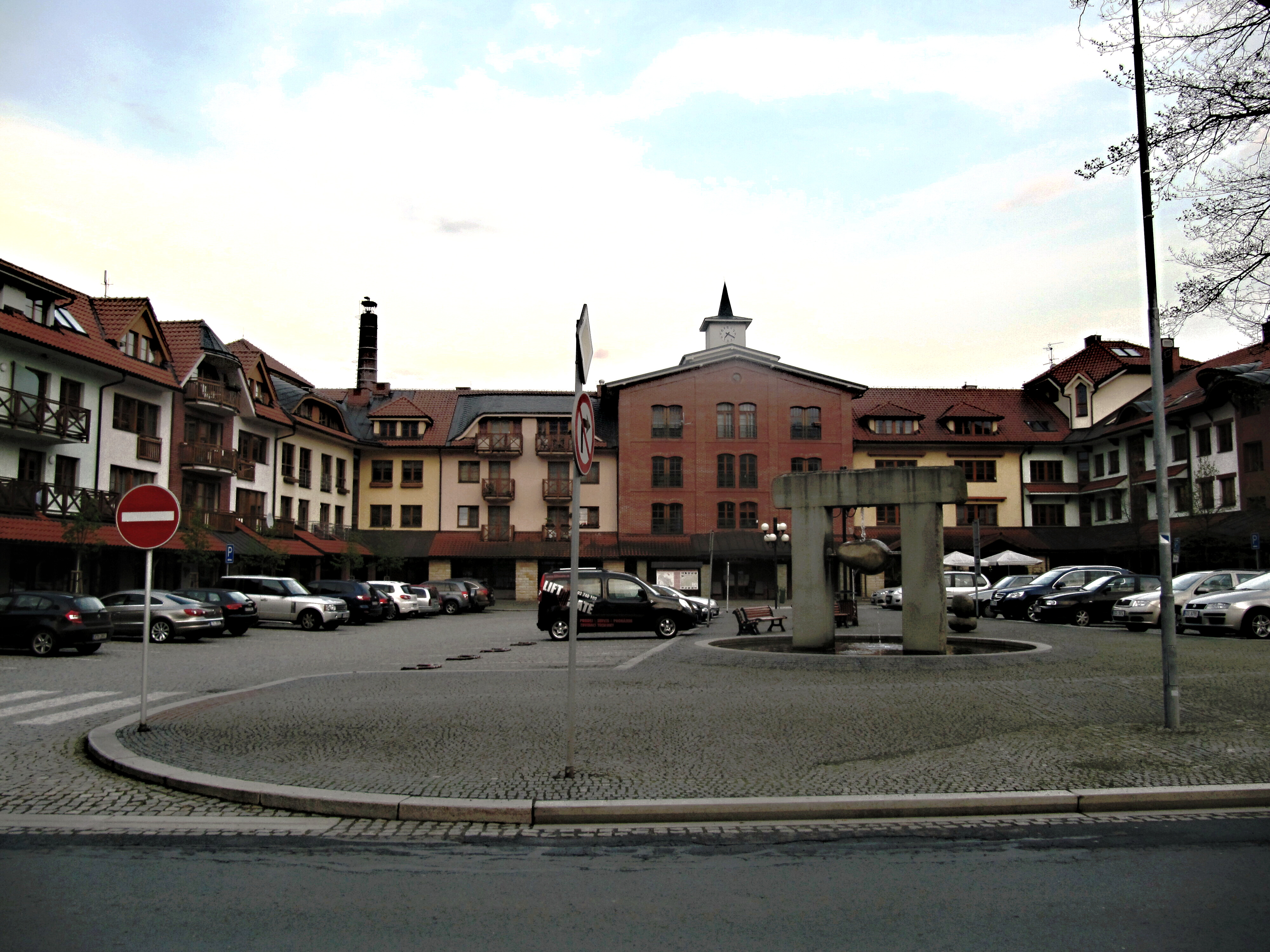 Čeladná